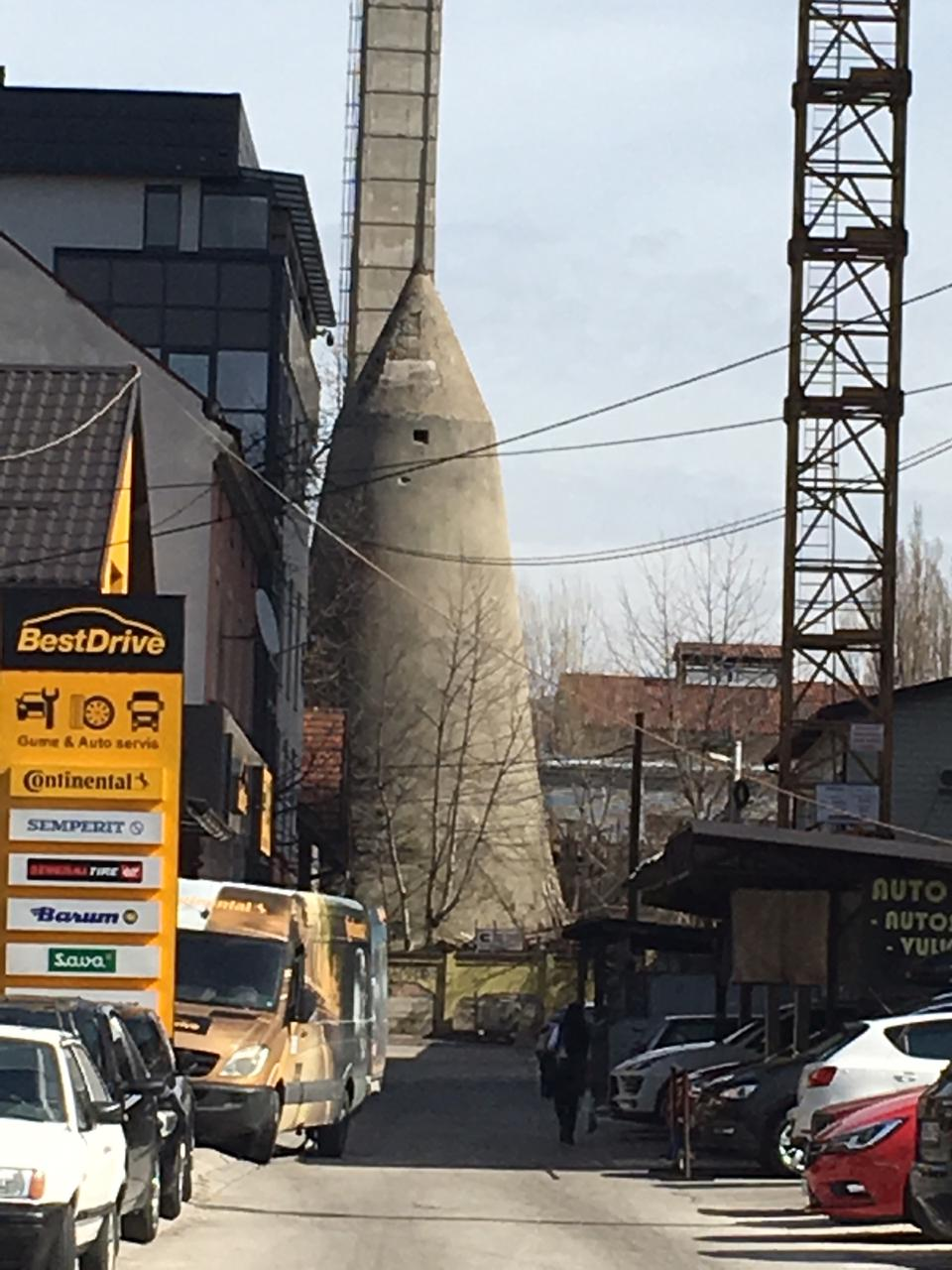 Winkel air-raid shelter tower in Sarajevo